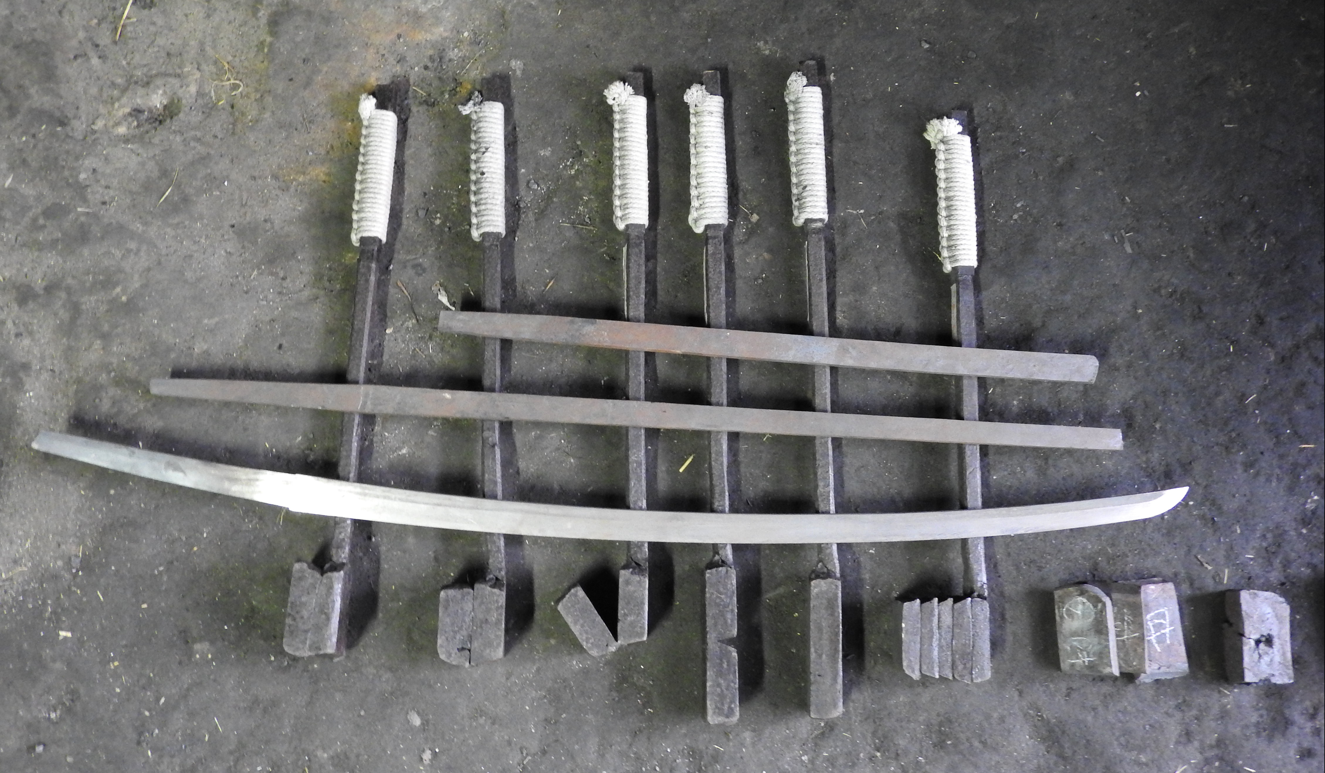 Steps of Japanese sword making. The folding (the 5 steps shown from right to left) is repeated as many times as needed (usually about 10 times), then the steel block is hammered to stretch to its final size (the 3 steps from top to bottom). Swordsmith: Tsuneharu Matsuda, Tsubata (Ishikawa, Japan)